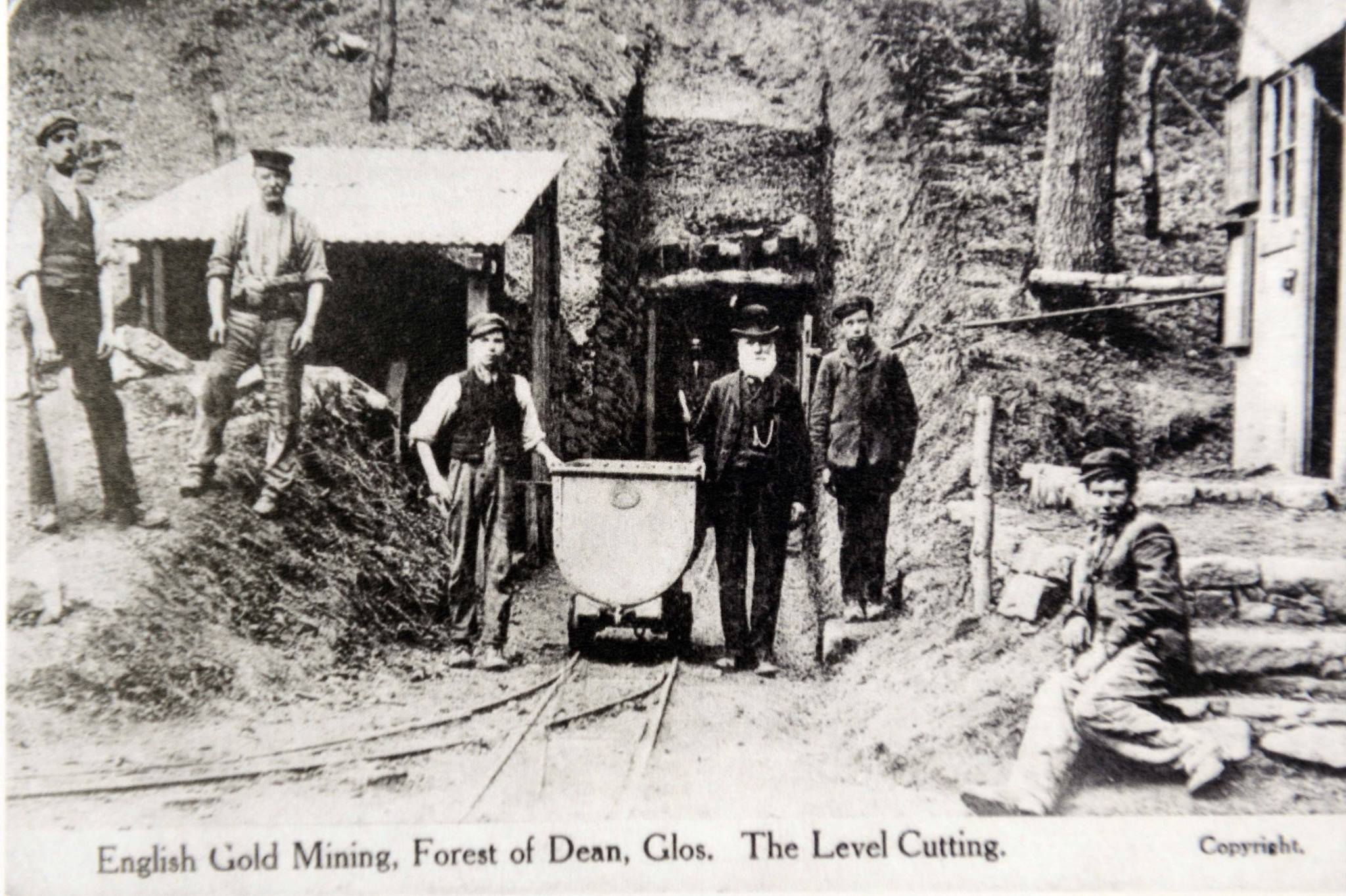 English Gold Mining, Forest of Dean, Glos. The Level Cutting